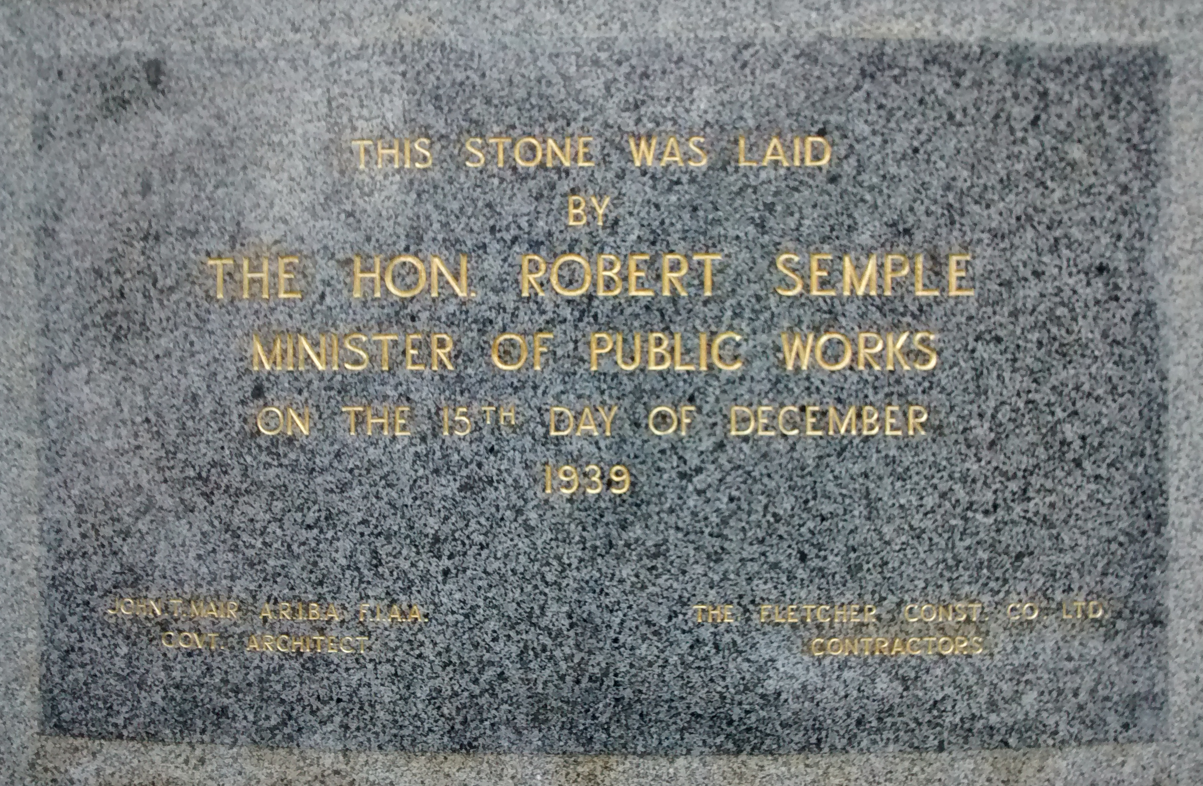 Plaque on the Ministry of Business, Innovation and Employment (MBIE) building on Stout Street.